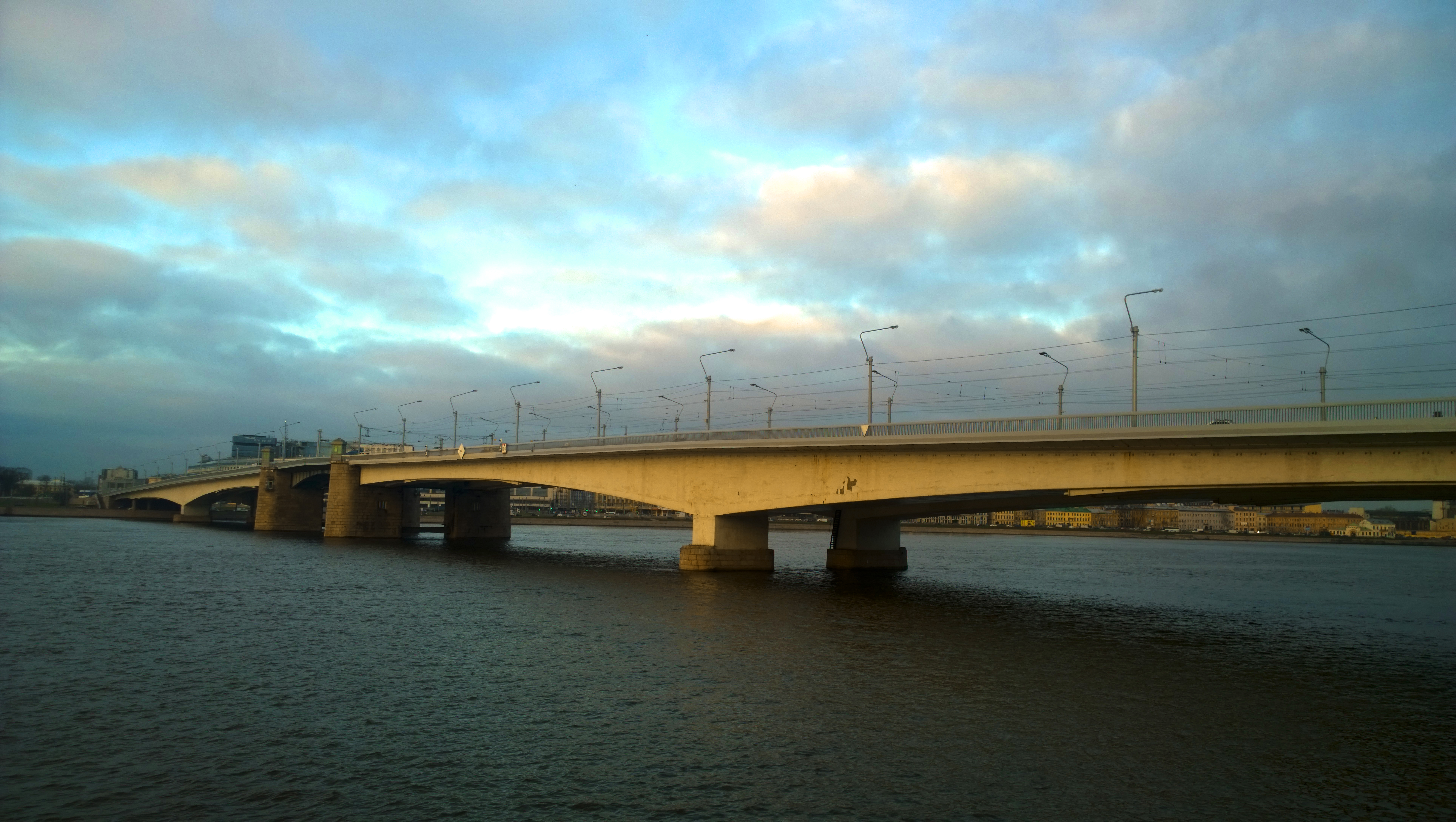 The Alexander Nevsky Bridge in St Petersburg, Russia